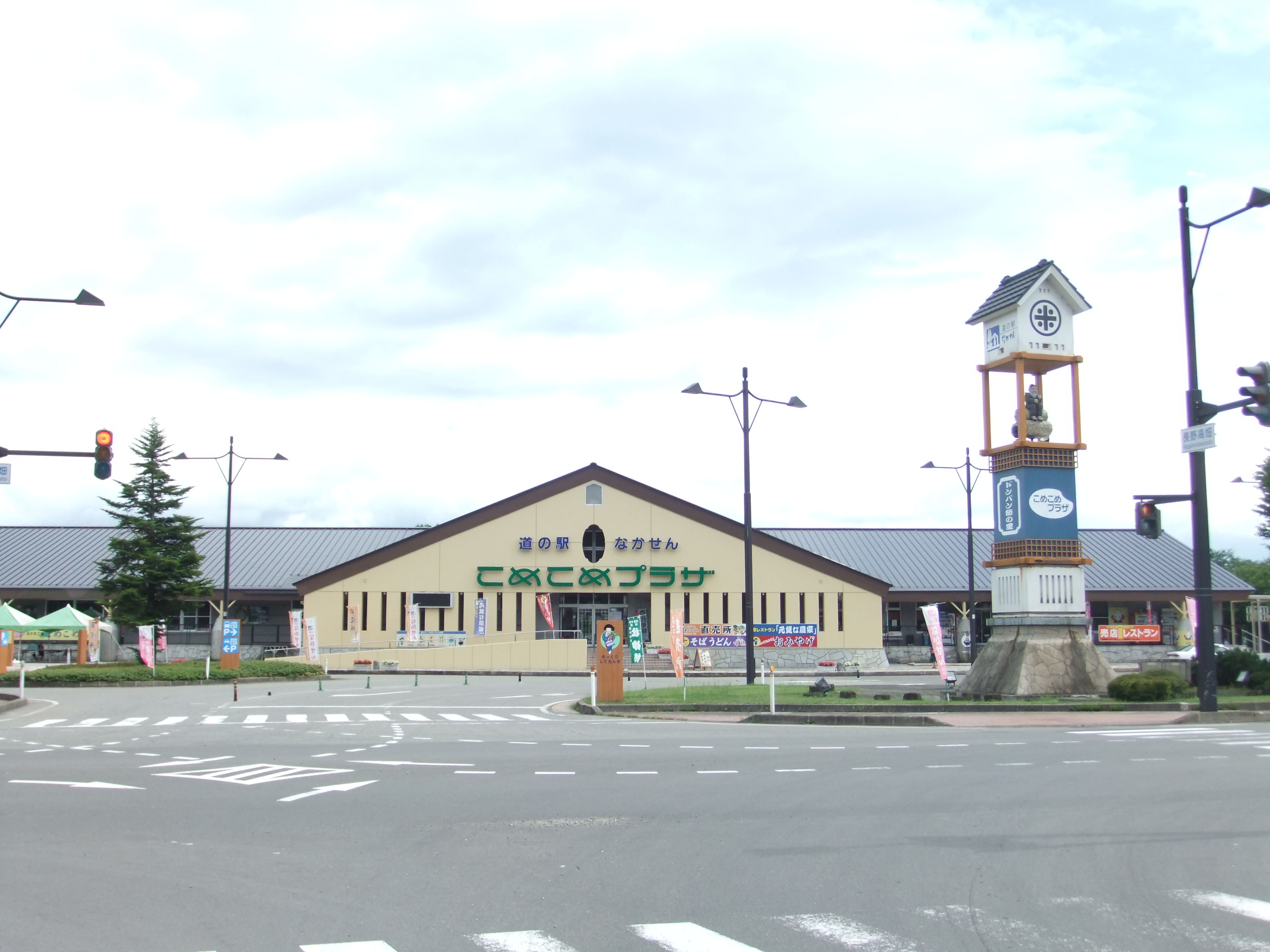 Miti-no-eki (roadside station) Nakasen in Daisen city, Akita prefecture, Japan.